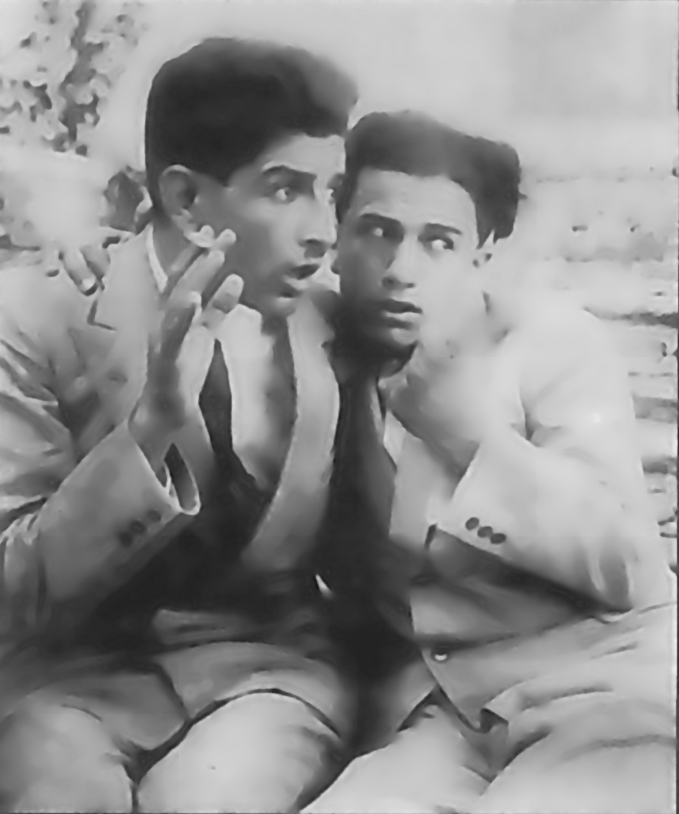 Gholam Ali Sahrabi and Mohamad Zerabi in Abi o Rabi, an Iranian film from Ovanes Ohanian, 1930 (screenshot)